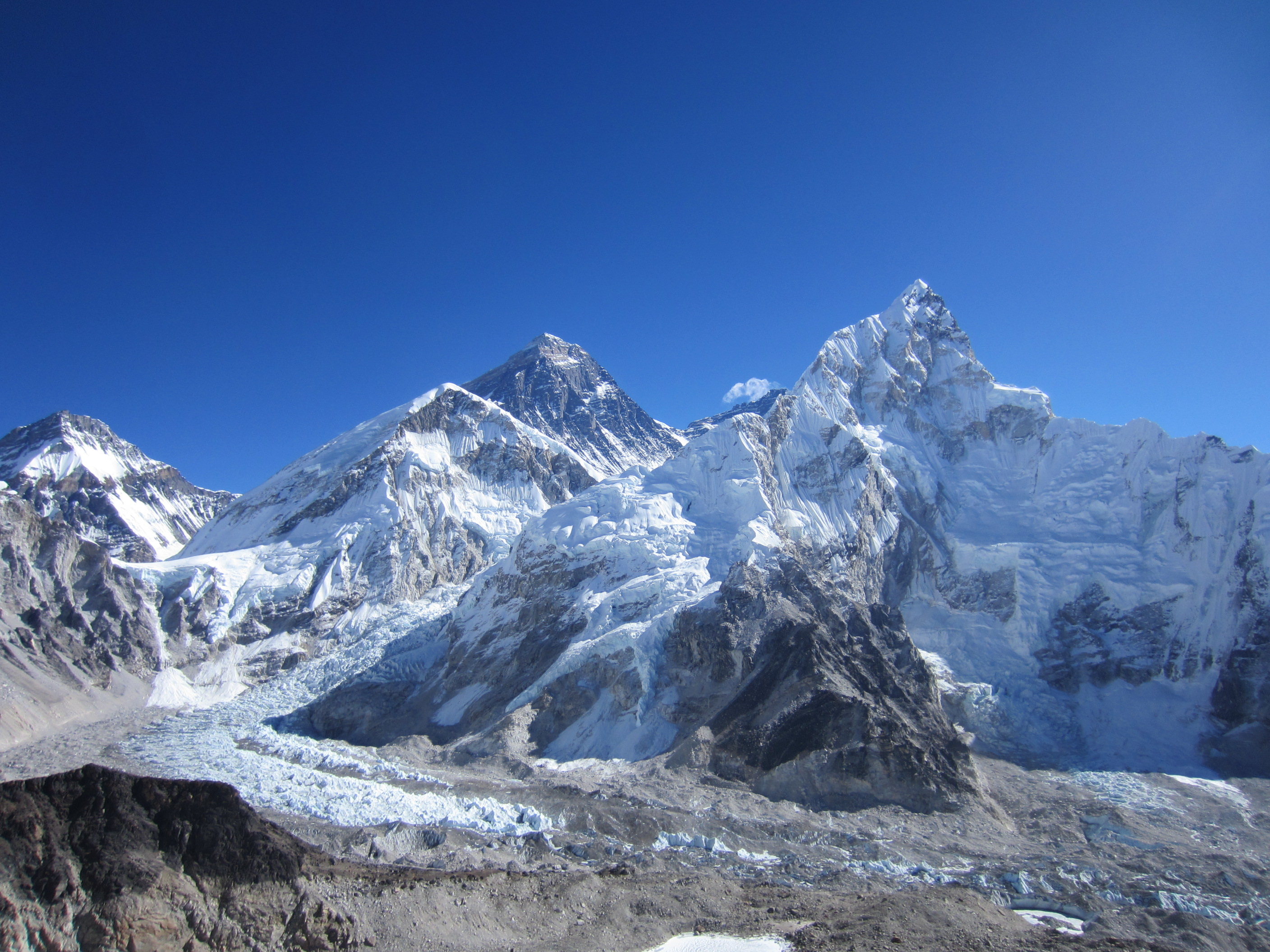 View of Mount Everest.